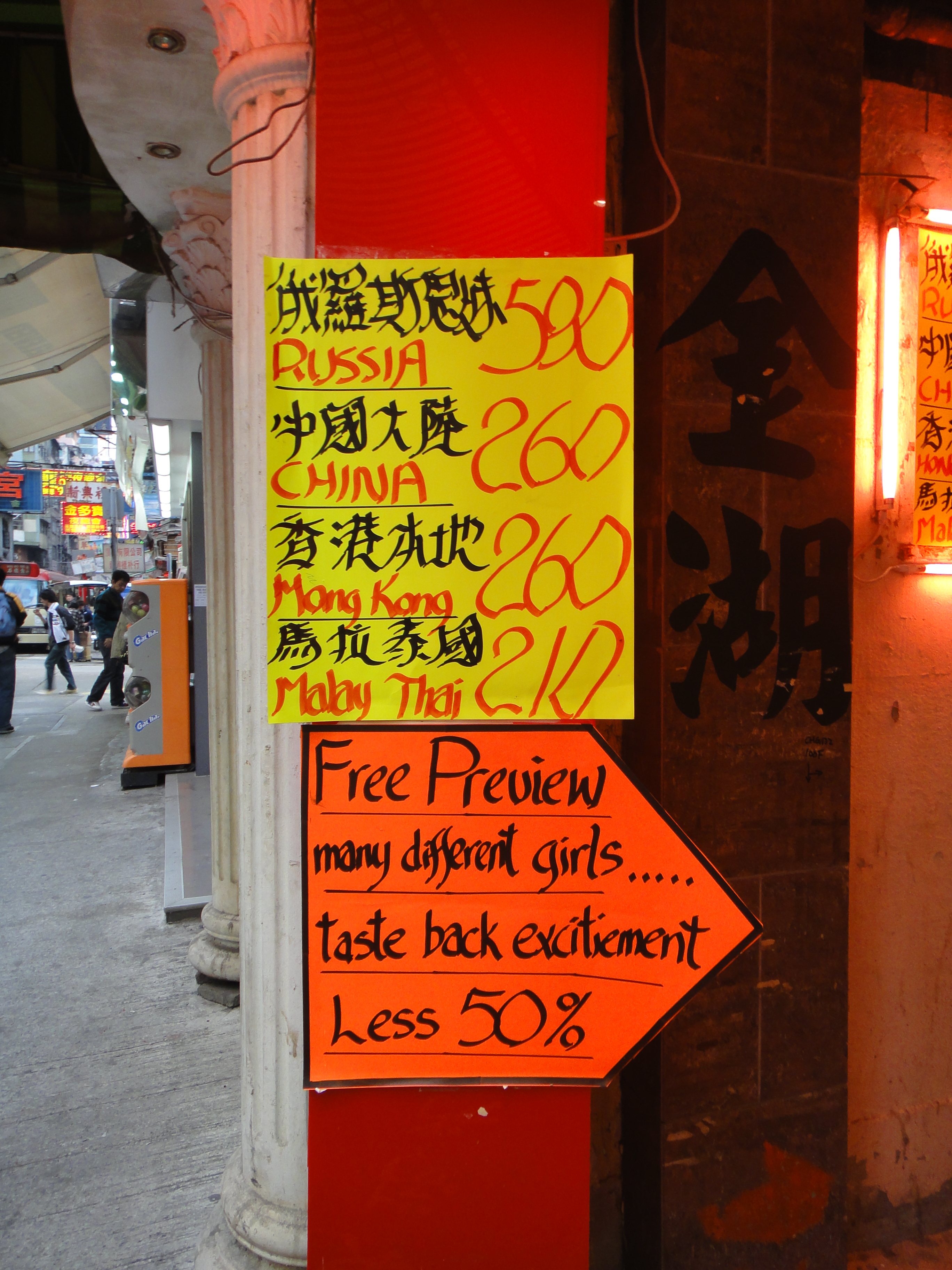 Free Preview